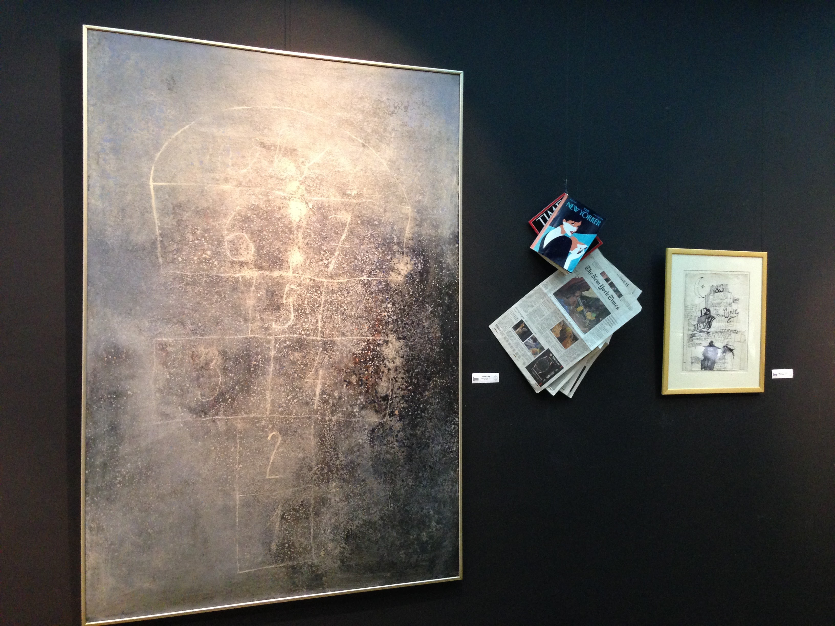 Еxhibition "Momo, par lui meme" Gallery of the Central Military Club, Belgrad, Serbia